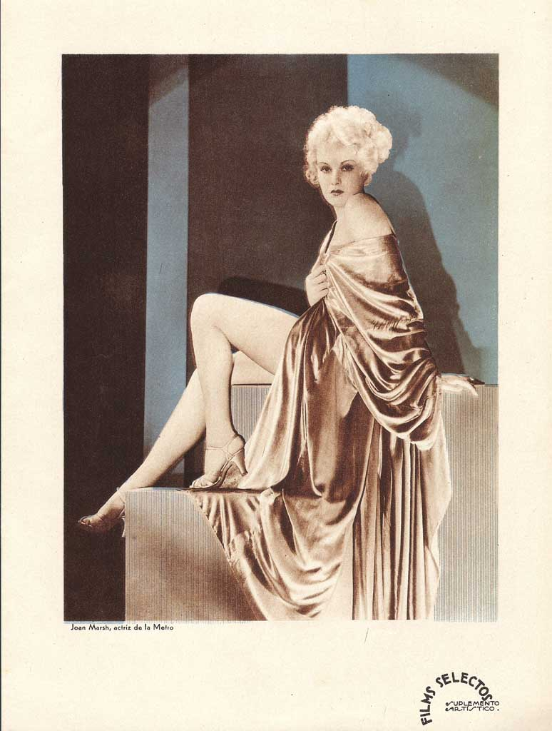 Publicity photo of Joan Marsh for Argentinean Magazine. (Printed in USA)